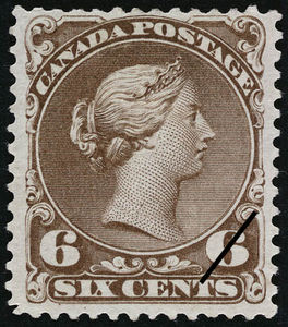 1868 6c stamp of Canada.